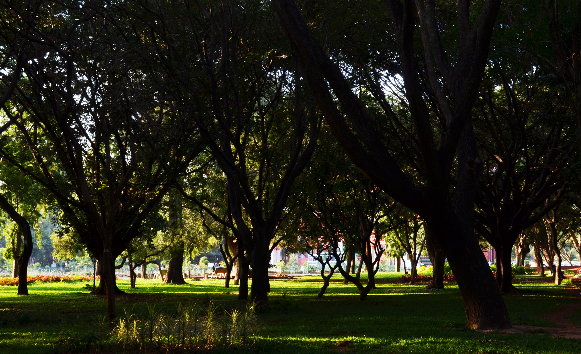 A beautiful view of Cubbon Park, Bangalore